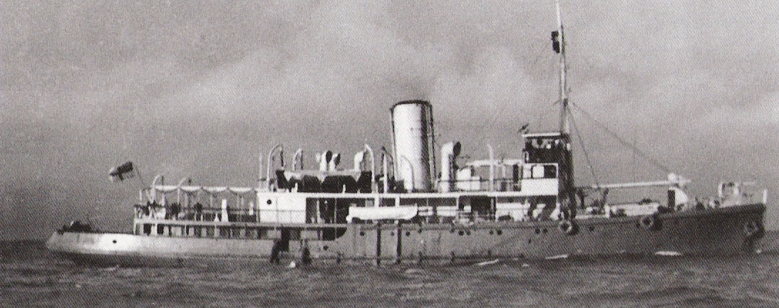 HMS Castle Harbour during the Second World War.